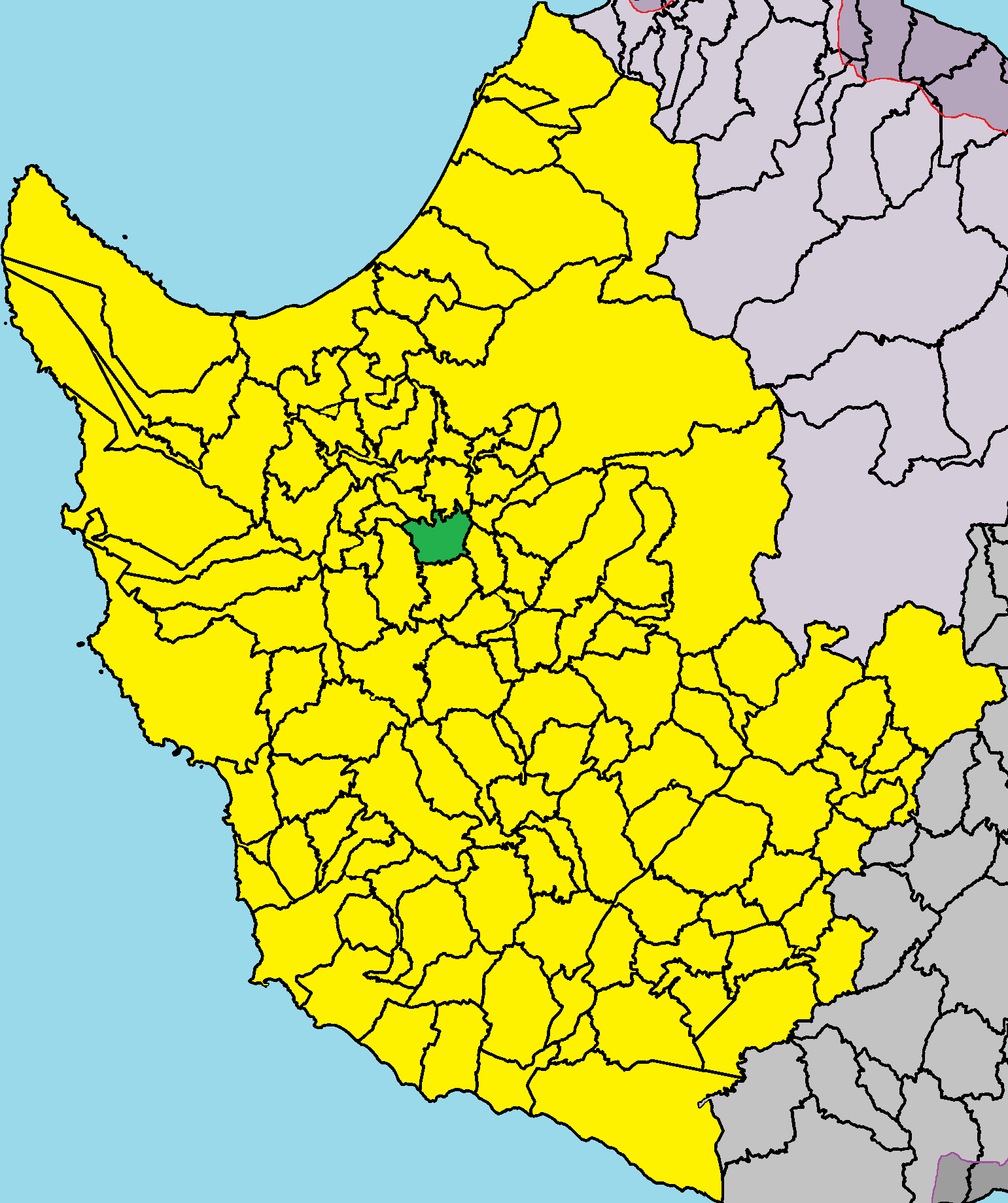 Simou in Paphos District.